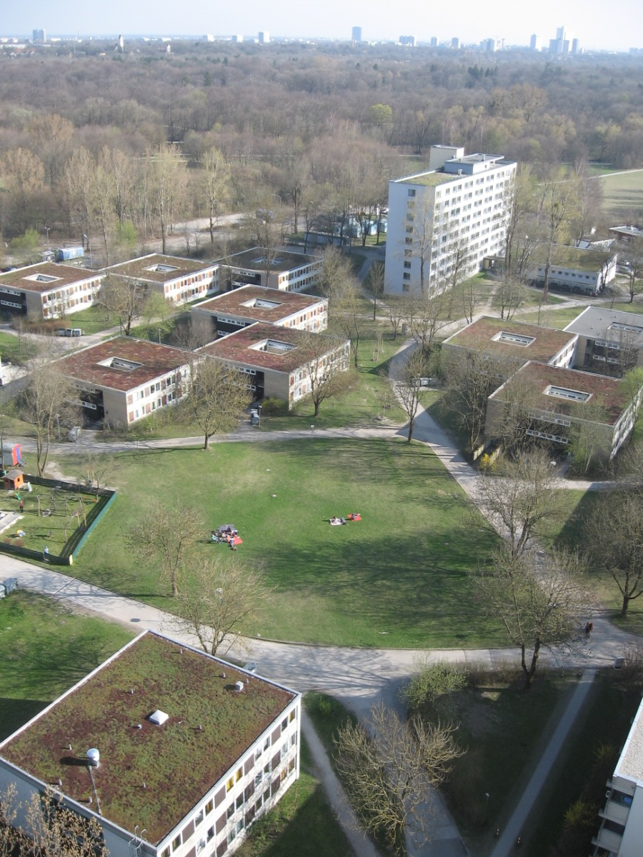 Studentenstadt Freimann in Munich